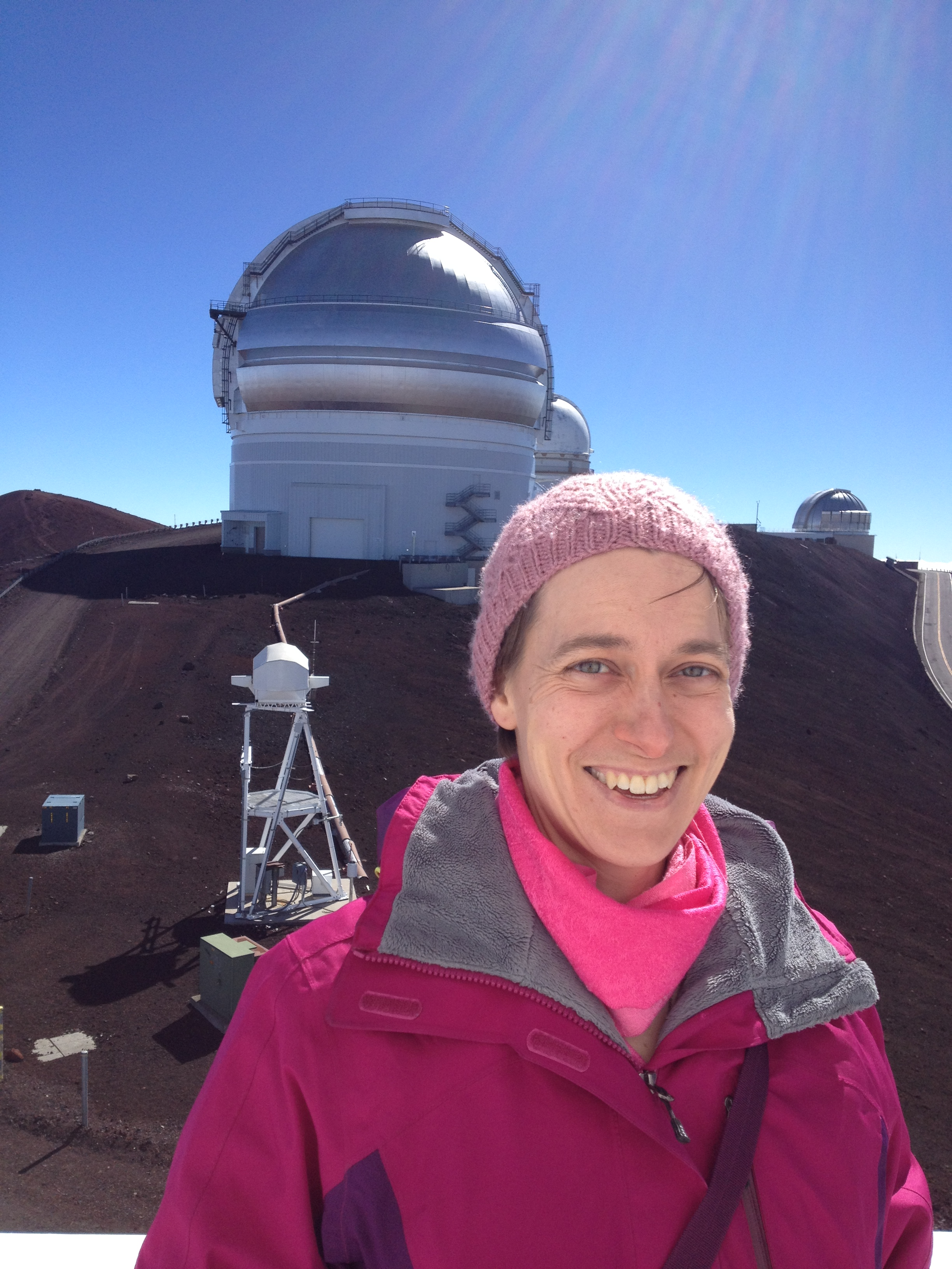 Pauline Barmby with Gemini-North Telescope in background, taken from the Canada-France-Hawaii Telescope on the summit of Maunakea, Hawai'i